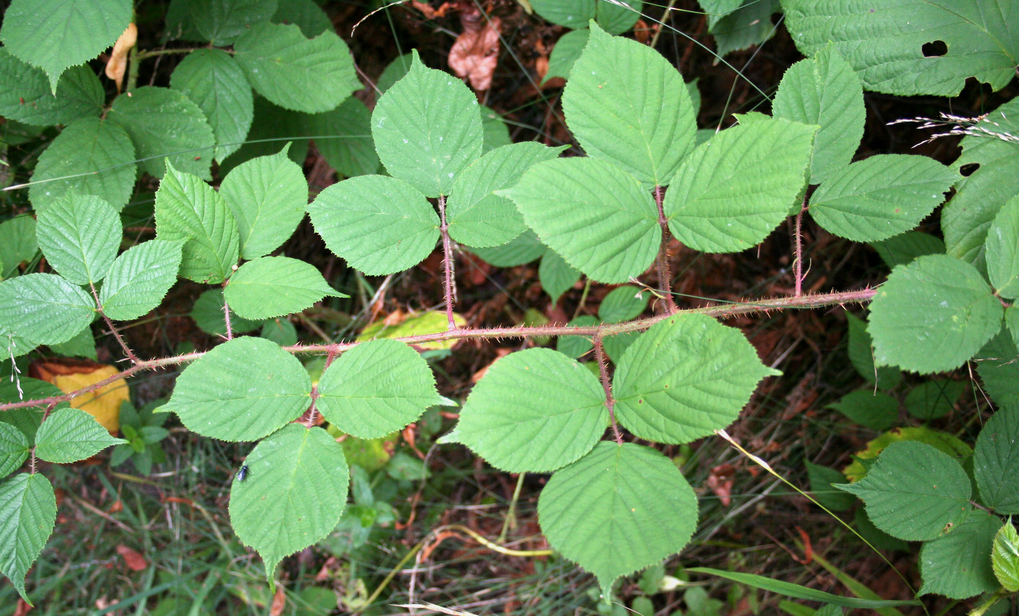 Blackberry